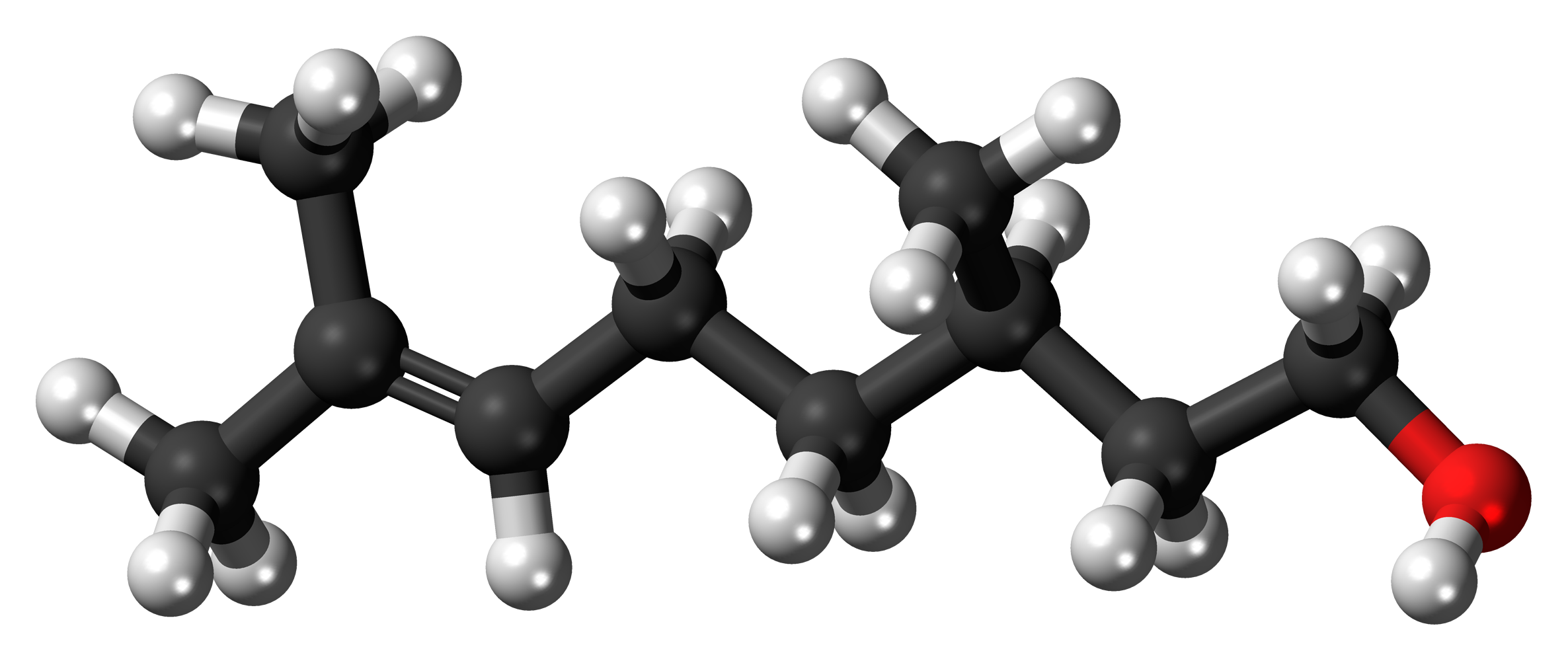 model of the citronellol molecule, a compound used in perfumes and insect repellents. This image shows the (+) isomer. Colour code: Carbon, C: black Hydrogen, H: white Oxygen, O: red